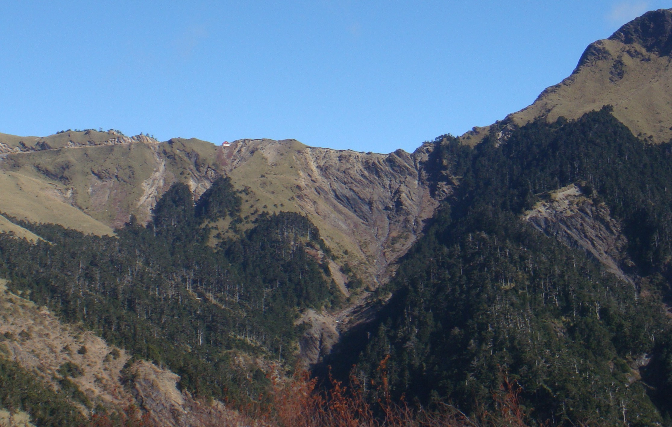 The source of the River Zhuoshui is at Wuling in Hehuanshan.中文（台灣）: 濁水溪源位於合歡山武嶺。中文（中国大陆）: 浊水溪源位于合欢山武岭。